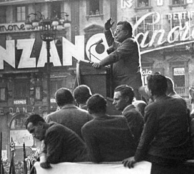 Palmiro Togliatti speaks.